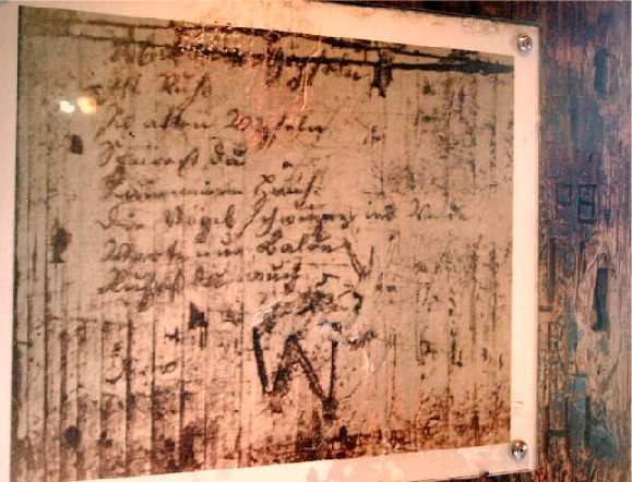 Goethe's poem 'Ein Gleiches'